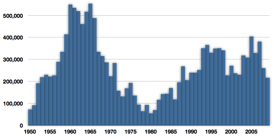 Fisheries recorded capture of Trachurus japonicus from 1950 to 2009. Data source FAO fisheries